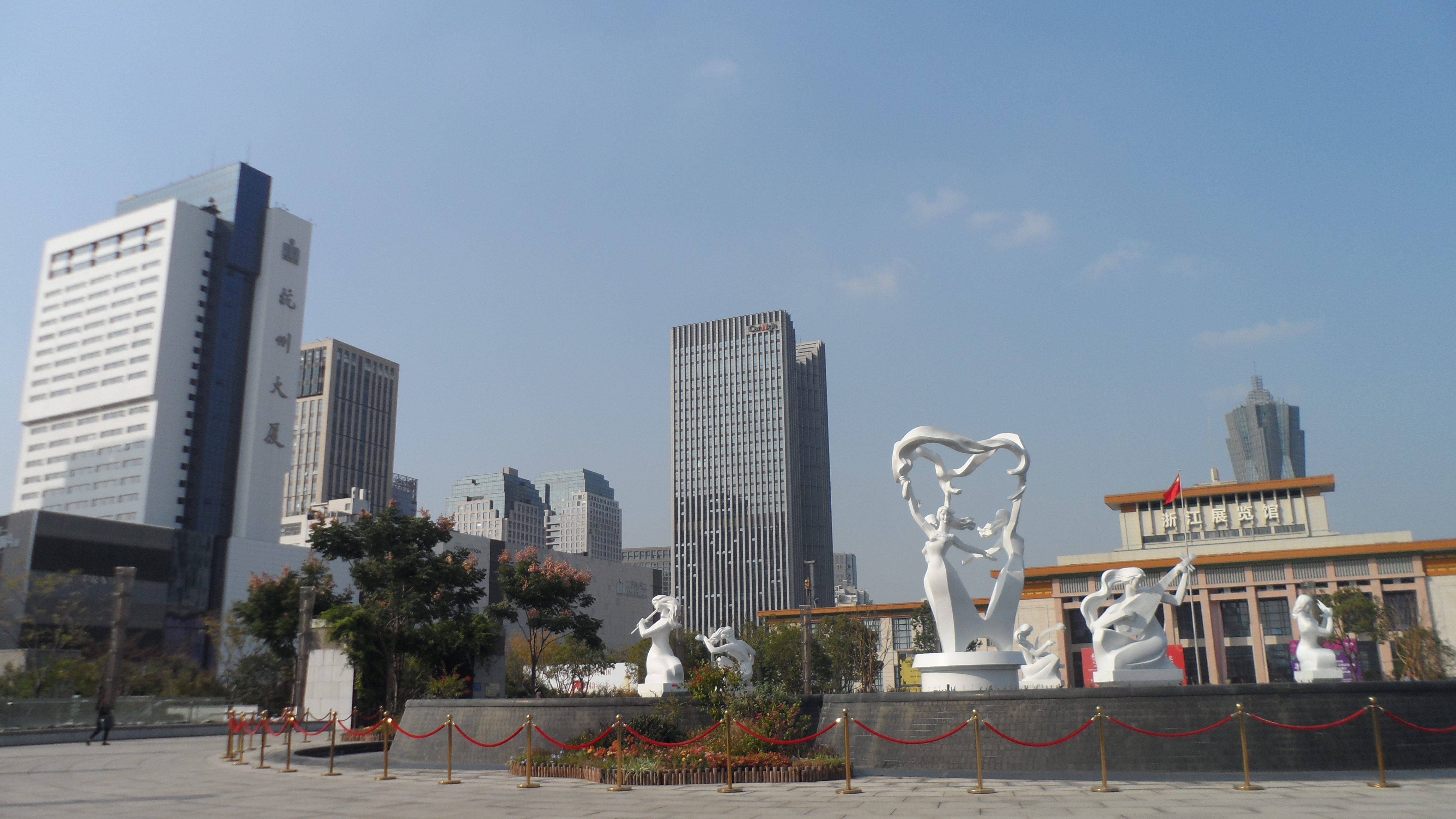 Wulin Square